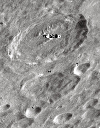 Frabicius lunar crater as seen from Earth with satellite craters labeled